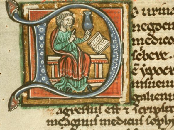 In initial "D" of "De", physician (Theophilus Protospatharius?), tonsured, bearded, wearing red cloak and green gown, sits on red and tan bench, faces r. in 3/4 view, makes teaching gesture with r. hand and pointing finger while holding blue uroscopy flask in l. hand. To r., book, held open over bench (by unseen stand?), and balanced on lower r. corner, displays writing not resembling latin script, attempting to suggest Greek? Adjacent text: Theophilos Protospatharios' De urinis.